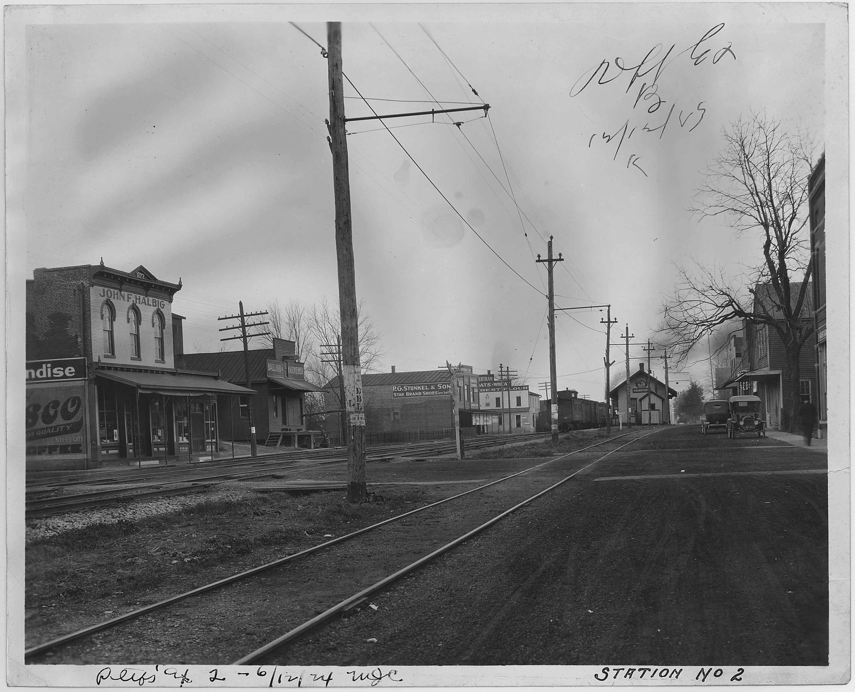 Scope and content: Various street scenes showing the John F. Halbig General Merchandise store, other businesses, railroad tracks, Model T car, and horse and buggy. In photo #94 the date on the Halbig building is 1877.